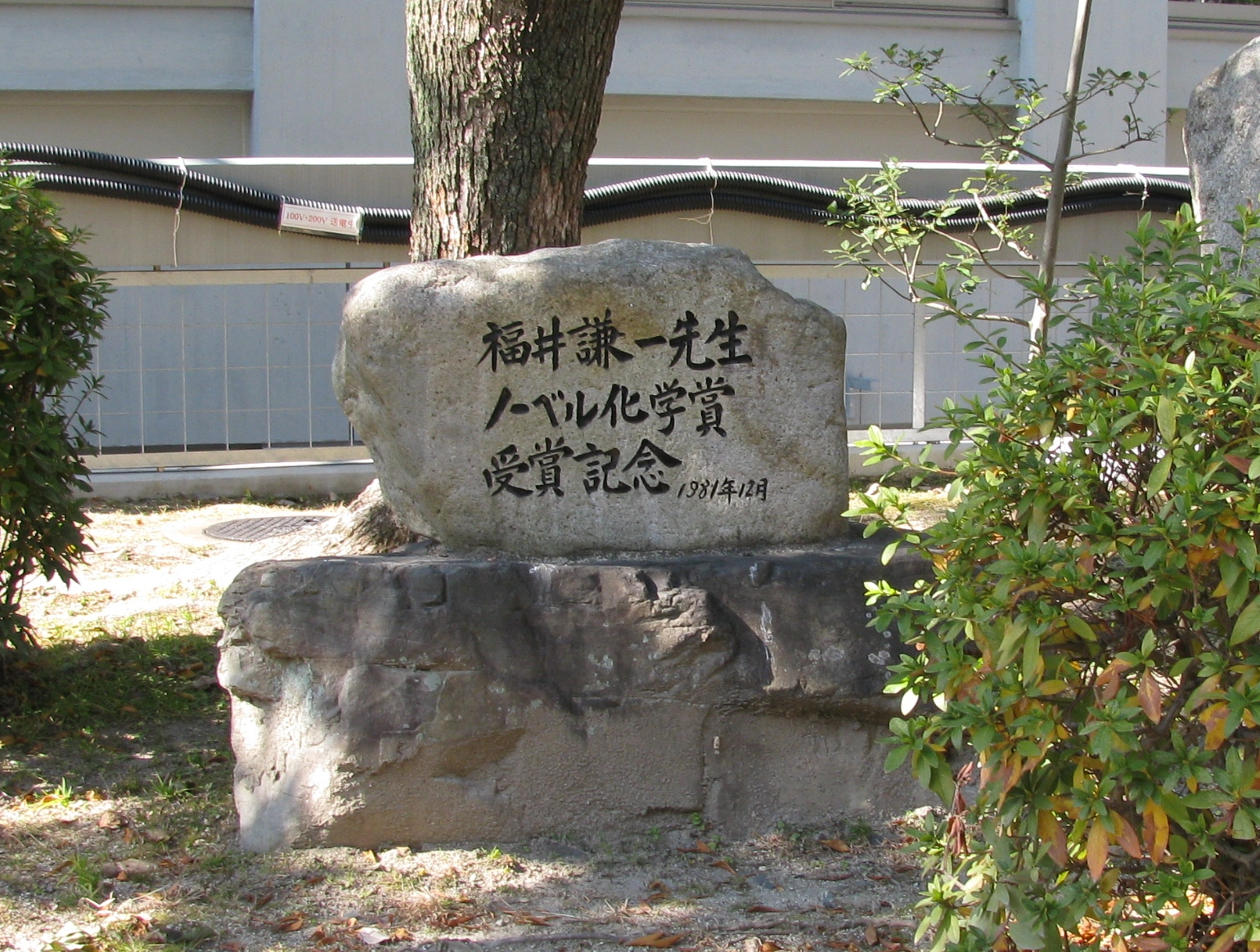 Kenichi Fukui Monument for winning Nobel Prize in Chemistry.